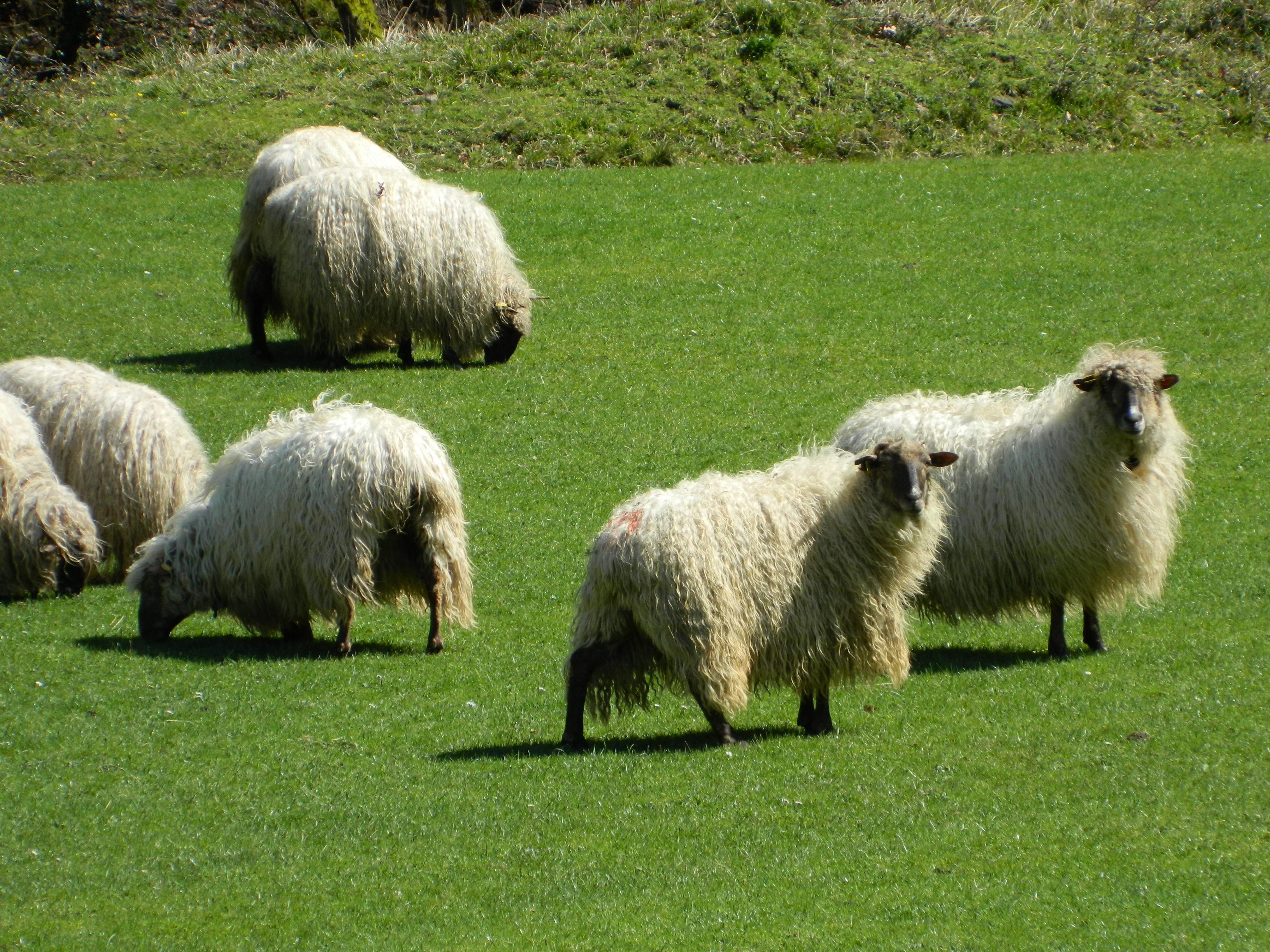 Sheeps of the Latxa race, variety "Burubeltza" (black head), at the Arlaban mountain pass, Gipuzkoa, Basque Country, Spain